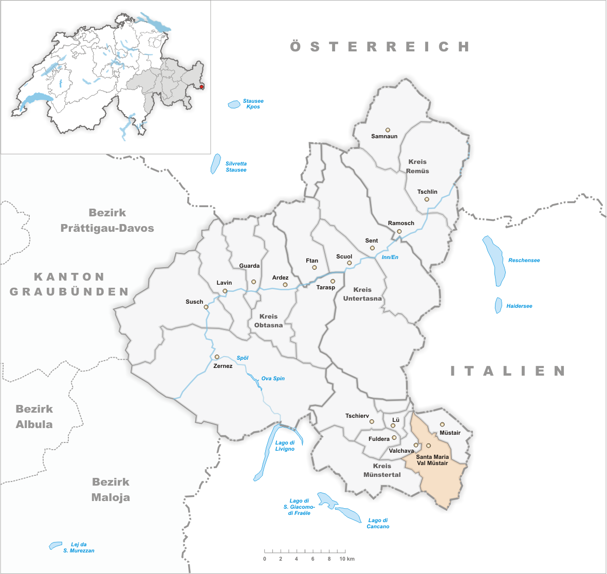 Municipality Santa Maria Val Müstair